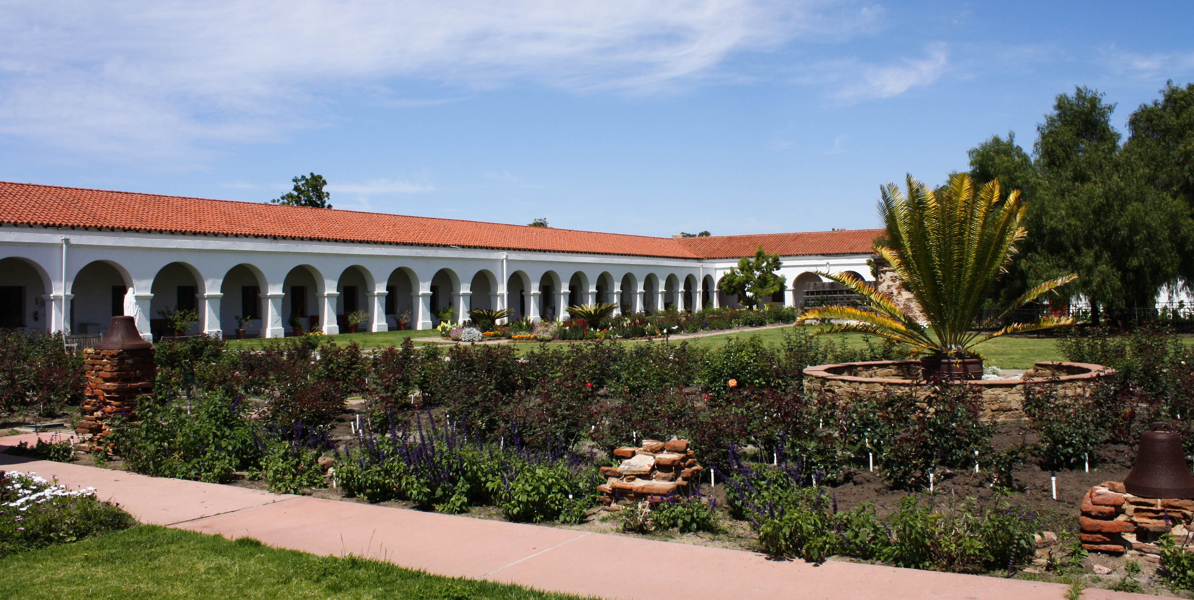 Mission San Luis Rey de Francia, Oceanside, California